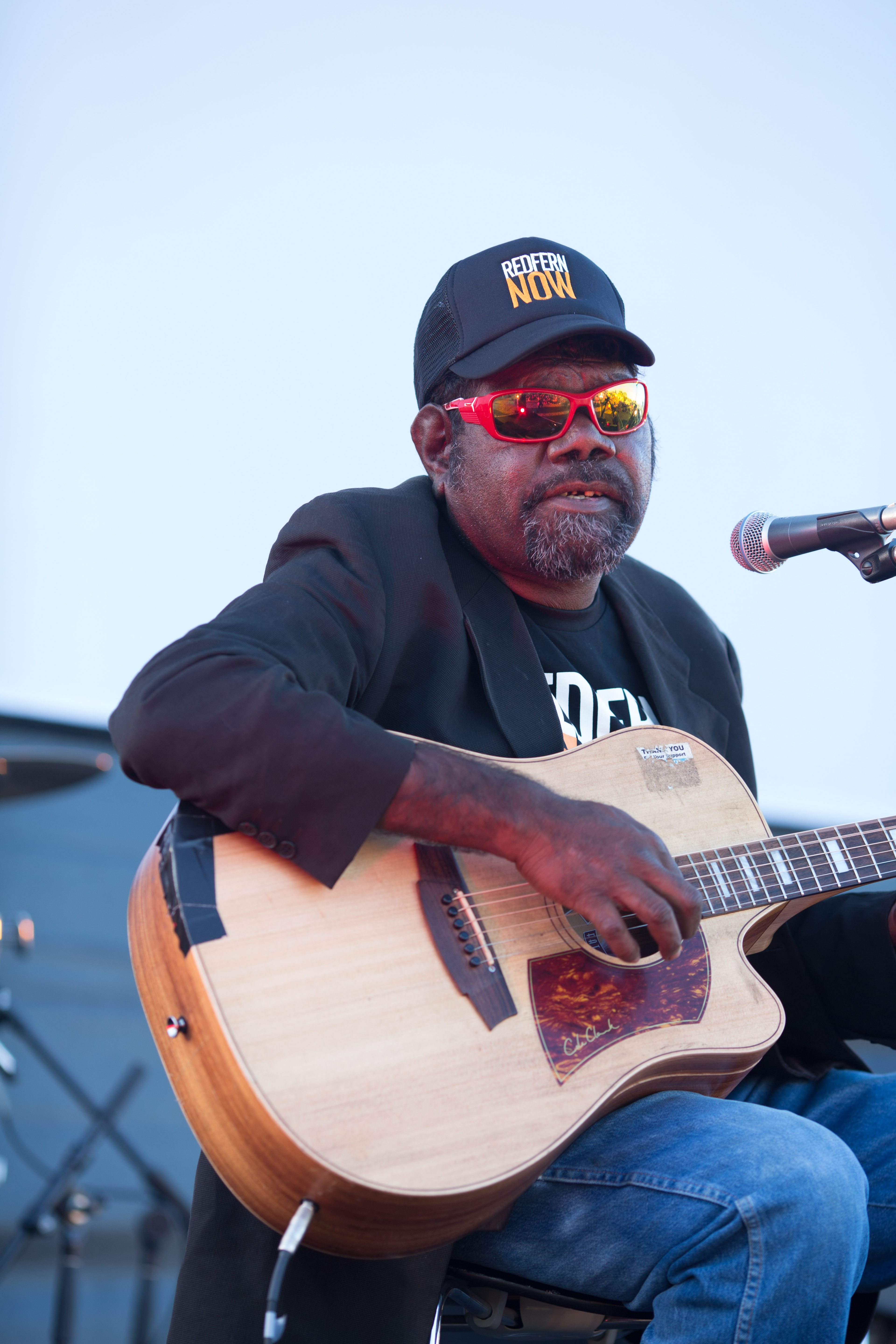 October 30, 2013